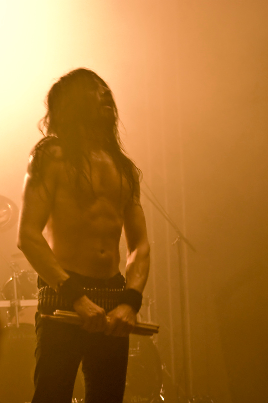 Norwegian drummer Frost of Satyricon (gran figo)